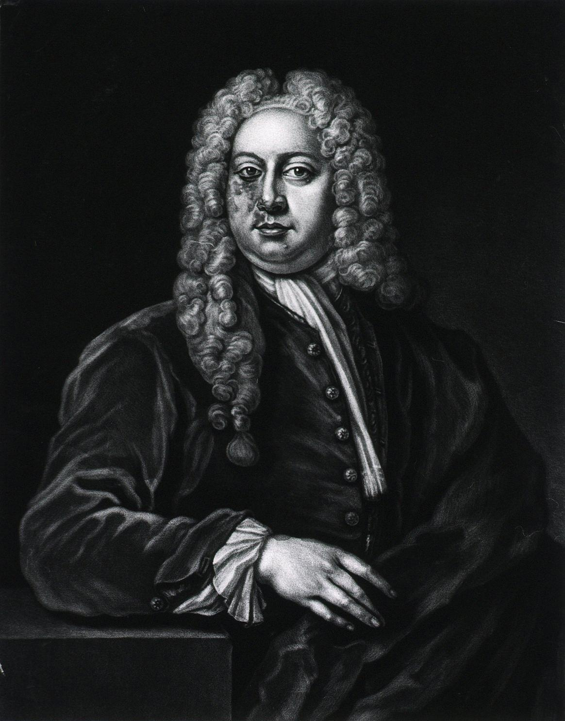 Doctor Joshua Ward (1685-1761).